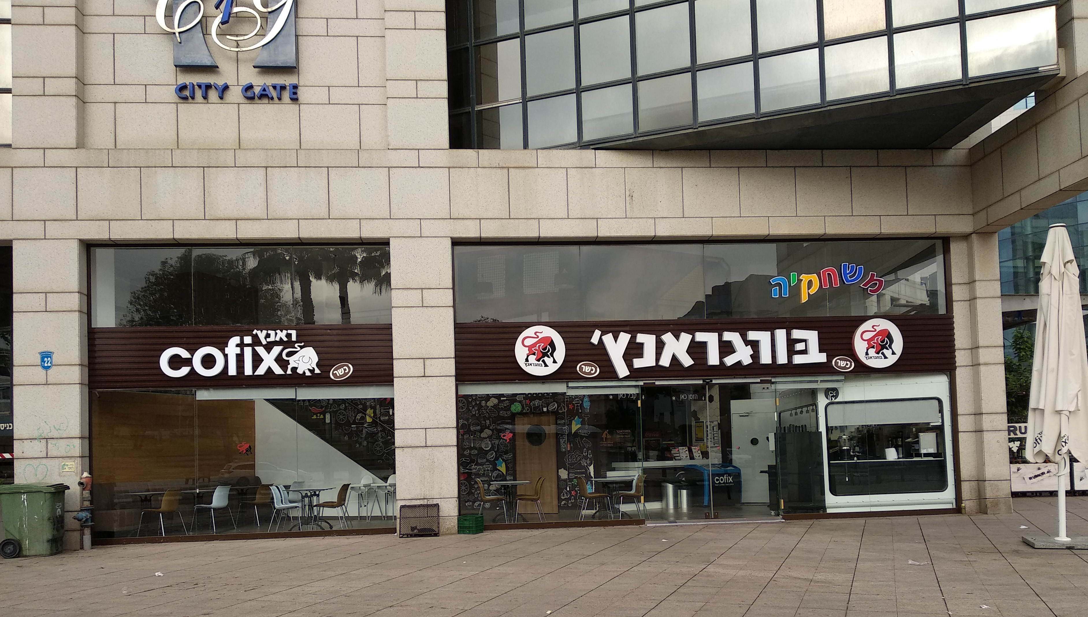 Burgeranch & Cofix combined branch in Herzliya